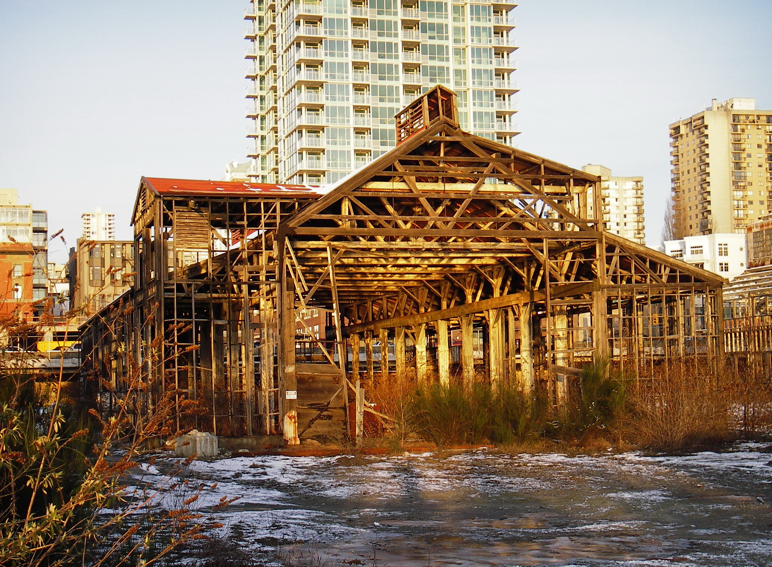 Burrard Dry Dock (originally Wallace Shipyards) was Western Canada's largest shipyard for over a century. They built a number of notable ships and supplied numerous World War II Victory ships for Canada's war effort. They became Versatile Pacific during the 1980s before closing forever in 1992. It will become part of a major waterfront development that will feature the National Maritime Museum of the Pacific.